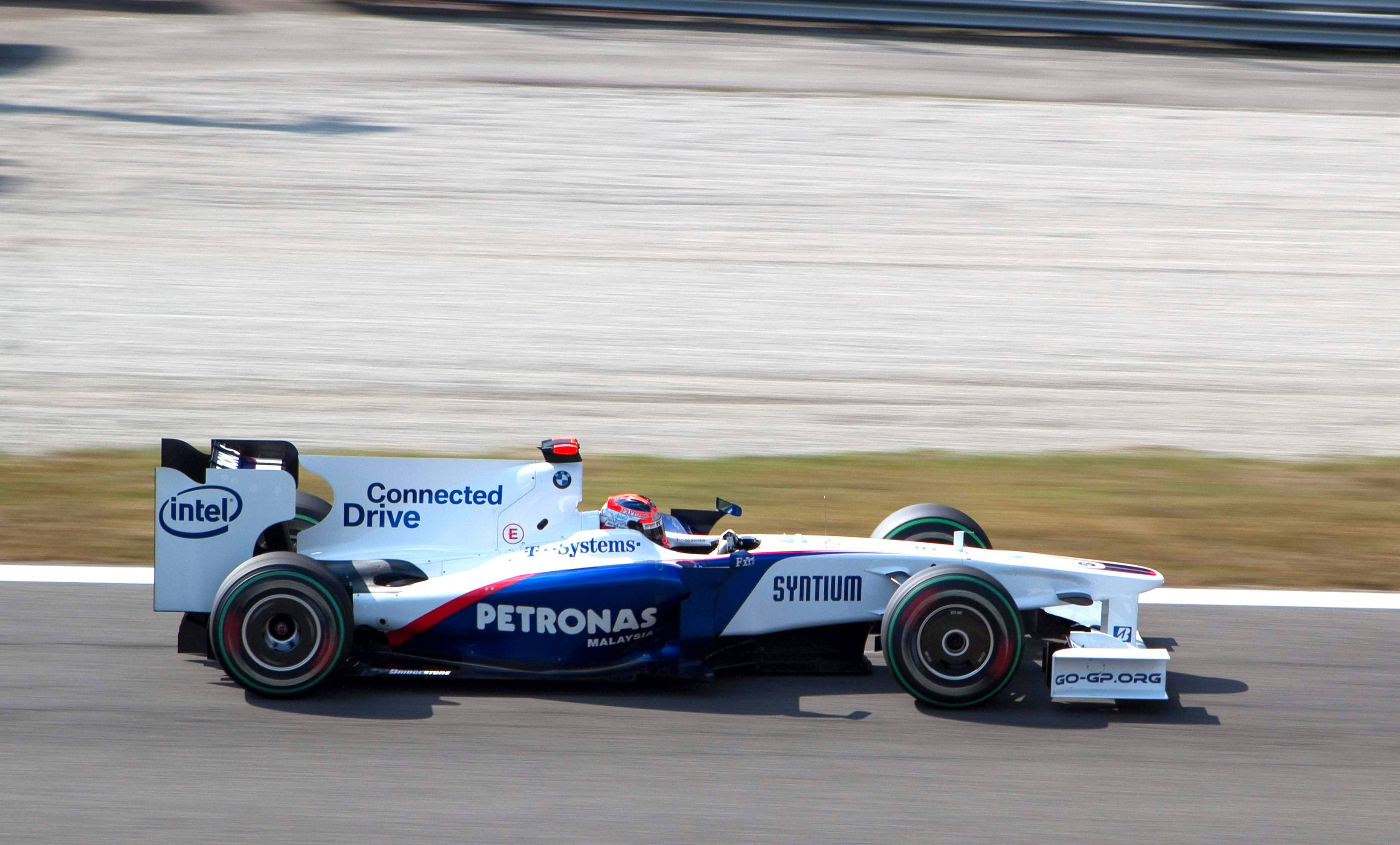 Robert Kubica driving for BMW Sauber at the 2009 Italian Grand Prix.